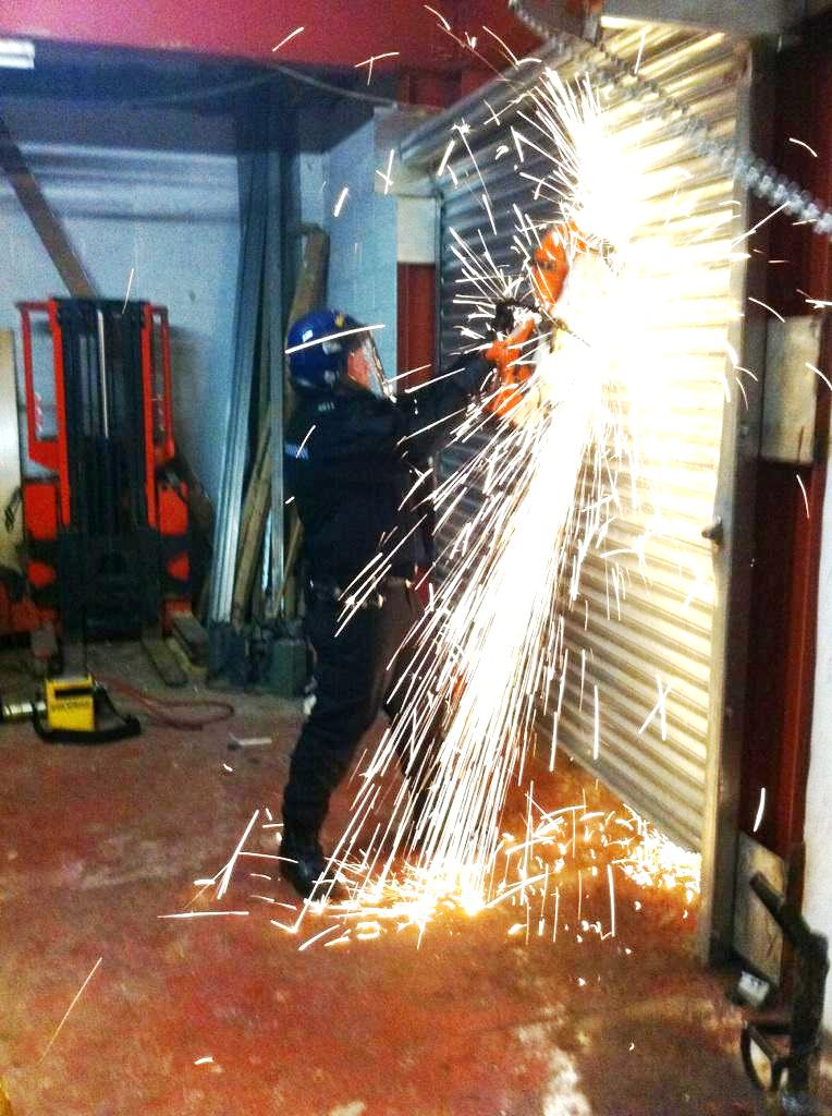 This photo shows an officer from our Operational Support Unit using specialist cutting equipment to gain access to a Cannabis Factory in Saltley, Birmingham, England, UK.